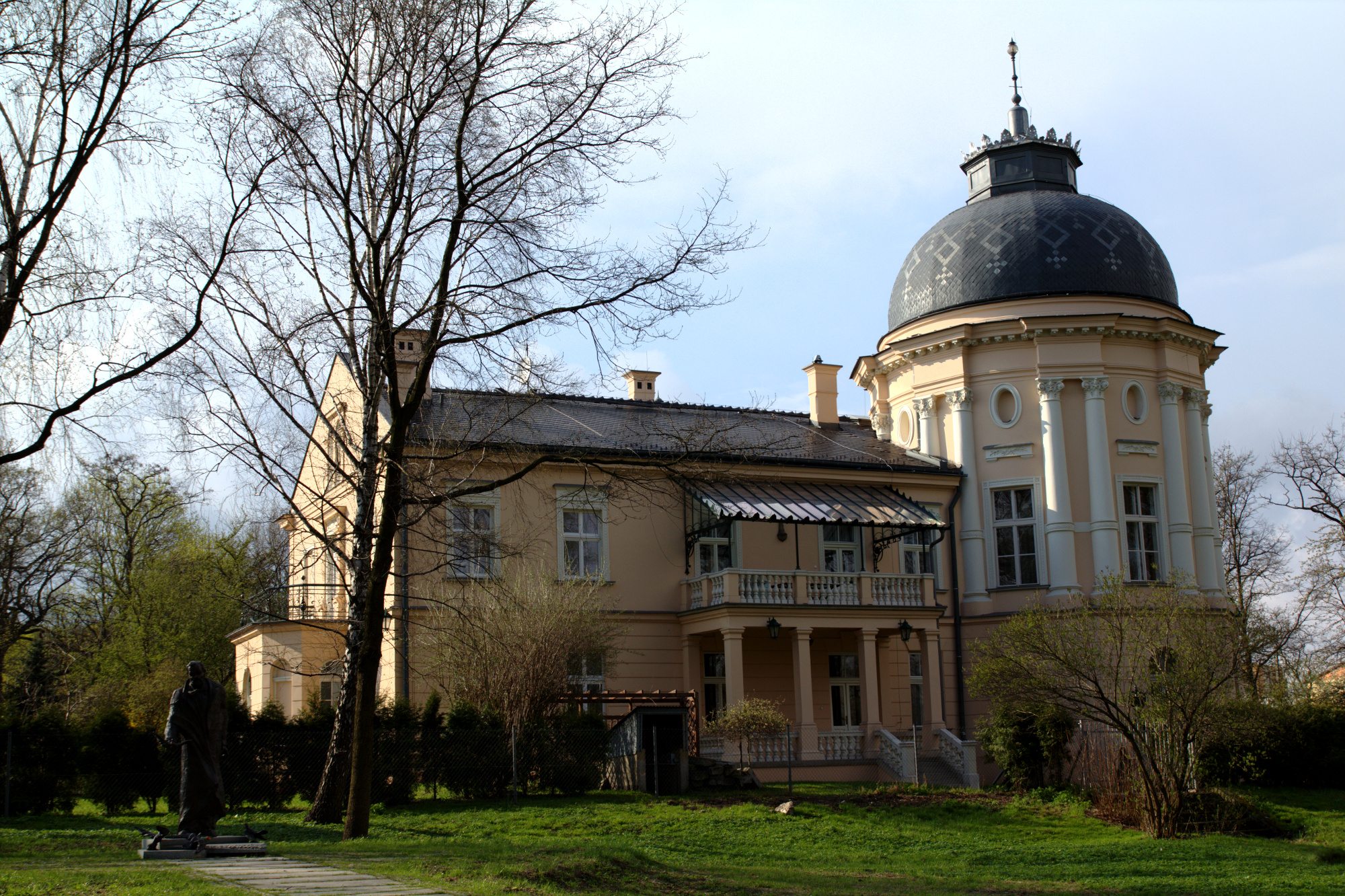 Jerzmanowscy Palace in Prokocim, Krakow.